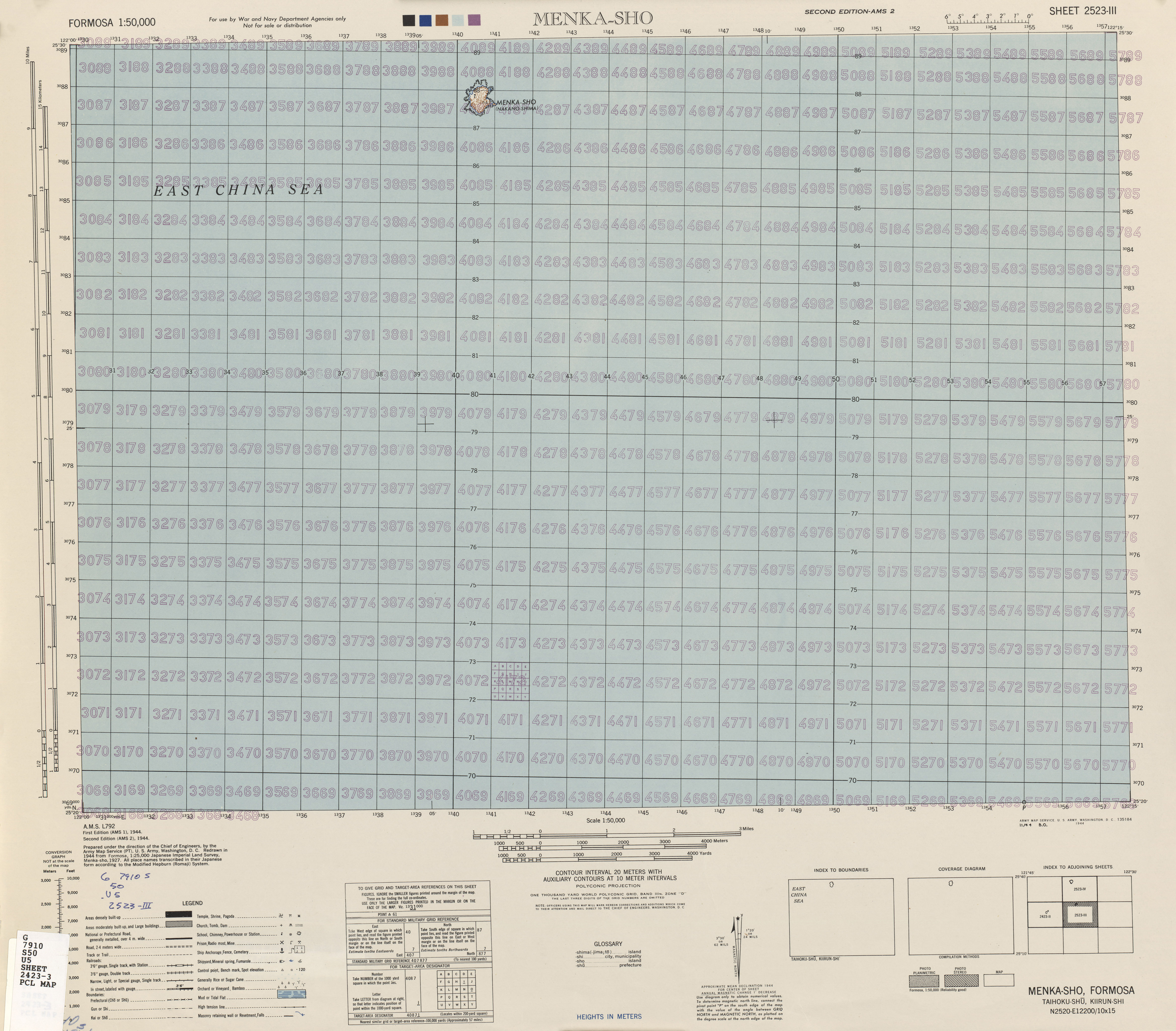 Map of Mianhua Islet (Menka-sho; Nakano-shima), Zhongzheng, Keelung, Taiwan from Formosa (Taiwan) 1:50,000 AMS Series L792